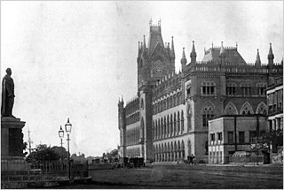 Calcutta_High_Courtold